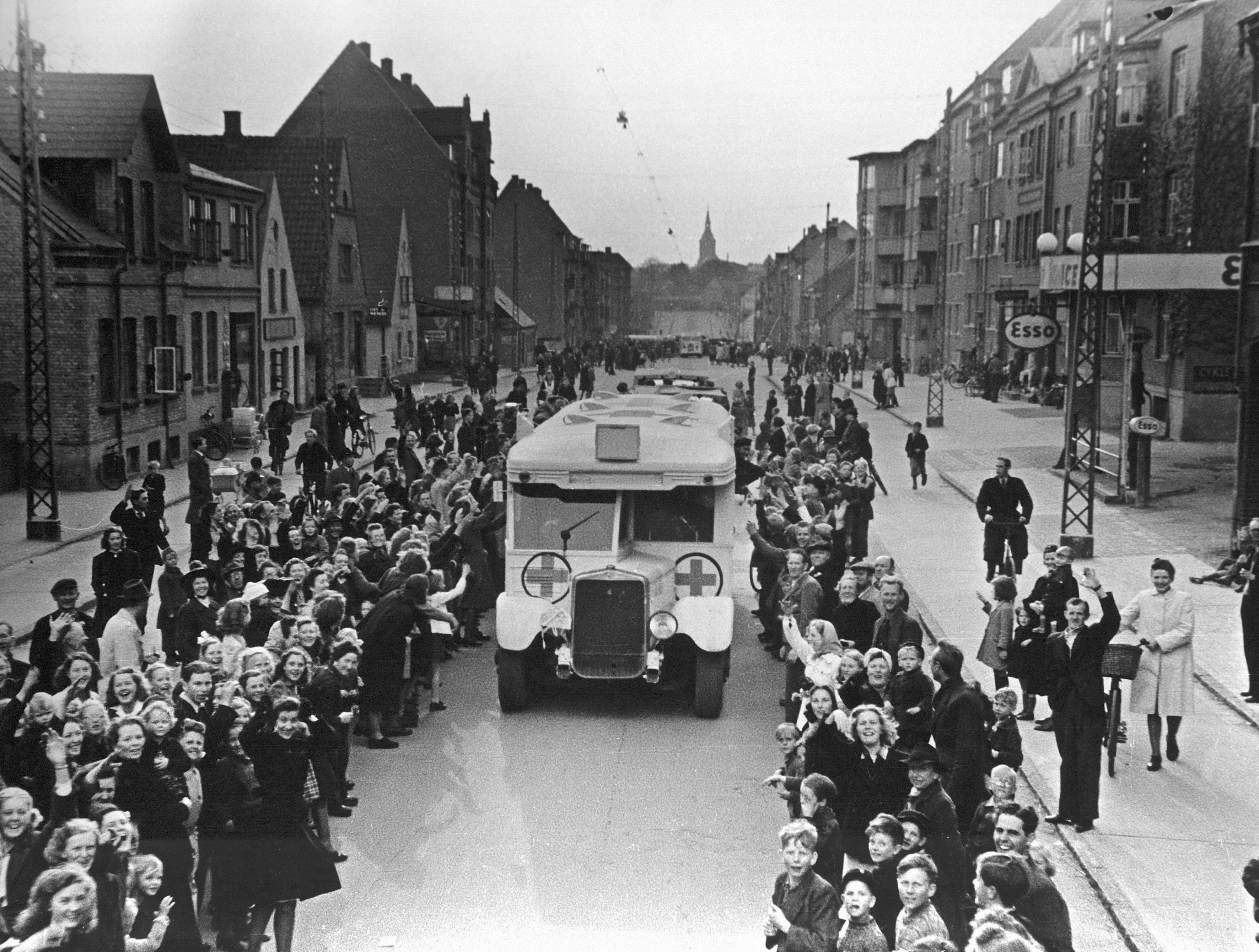 Bernadotte action. Danish Red Cross buses drive through Odense on the way to Sweden, carrying Danish prisoners from German concentration camps April 17, 1945 Fotograf: Christoffersen, Odense Se flere billeder her: Download and rights: More about The Museum of Danish Resistance (Frihedsmuseet)